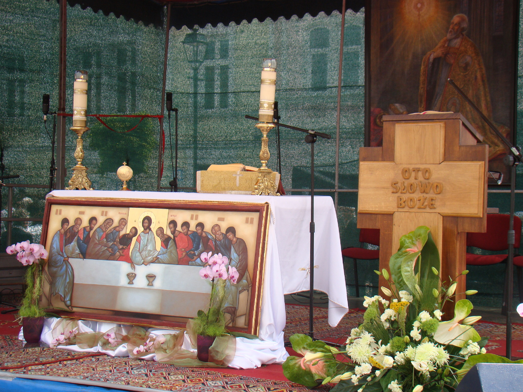 Corpus Christi Mass and Procession in Sanok, 11 06 2009